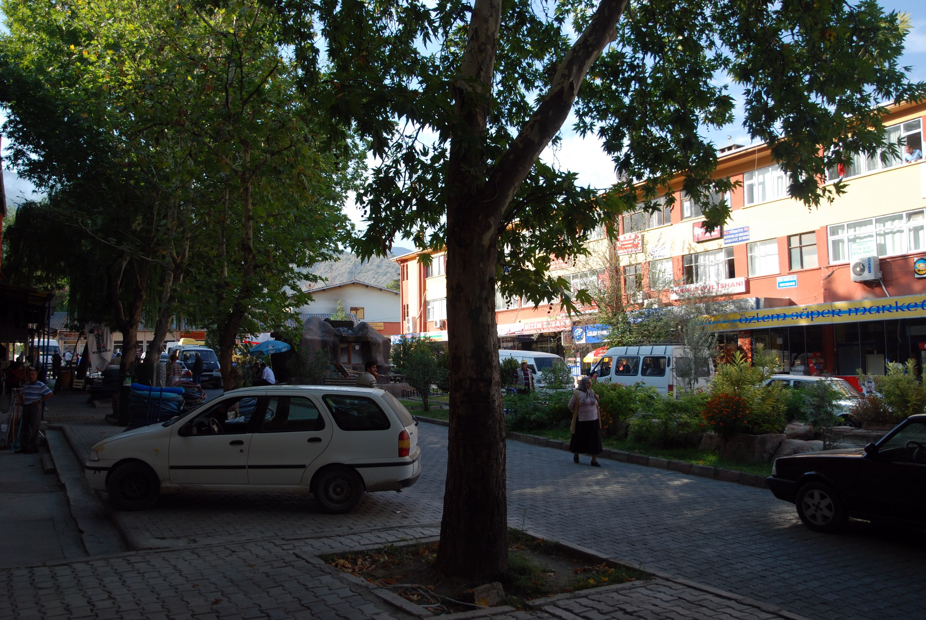 Ardanuç center